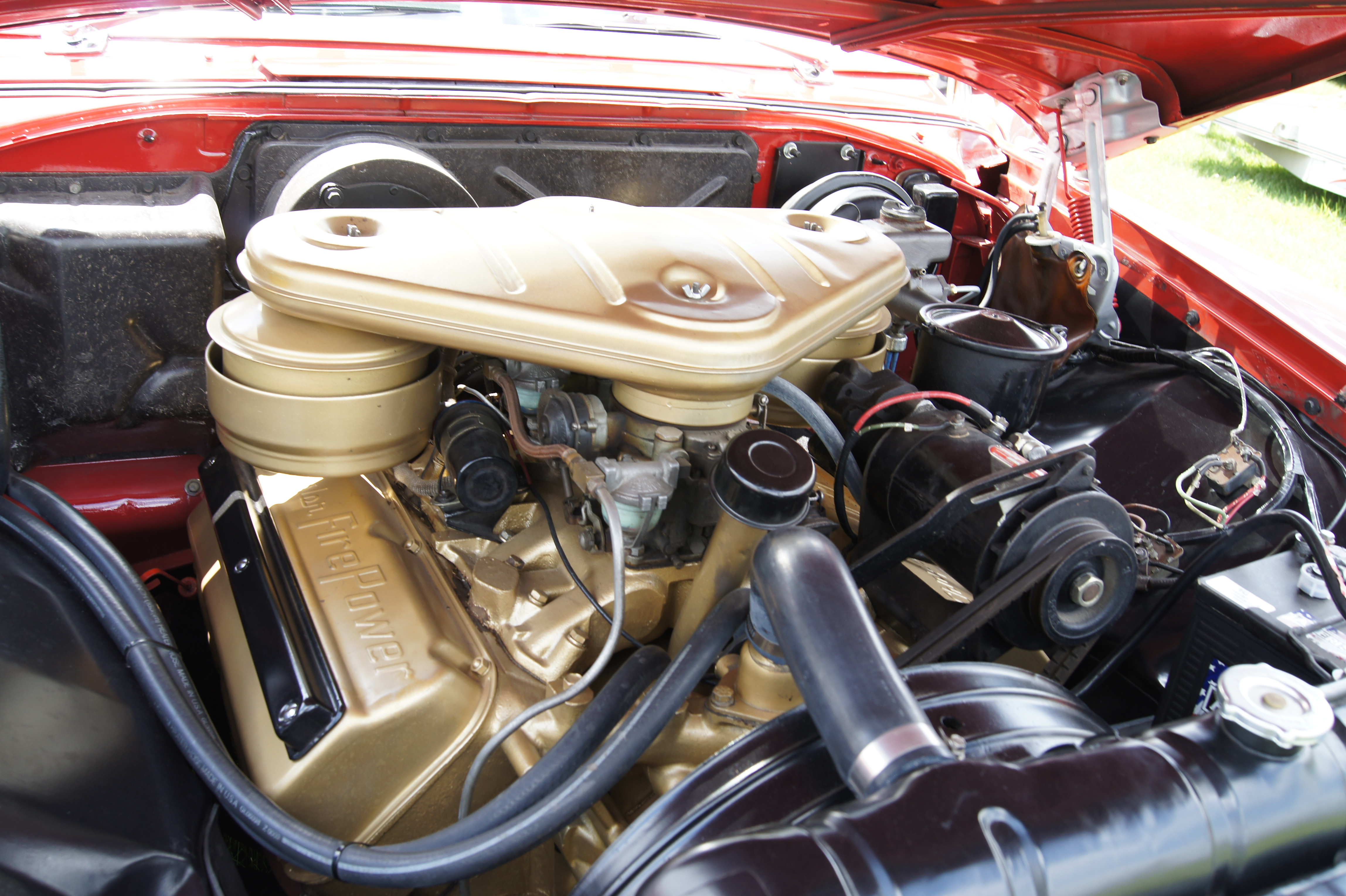 28th Annual Midwest Mopars in the Park June 2, 2012